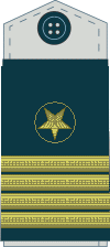 Serbian military ranks and insignia